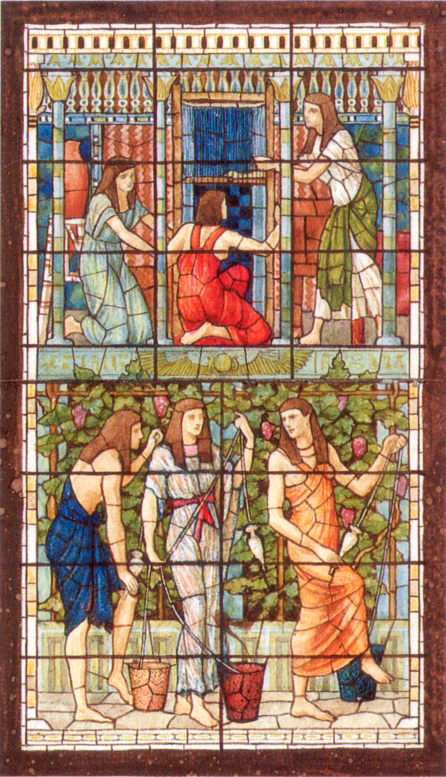 Modello or cartoon for three-panel stained glass window Domestic Arts in Ancient Egypt for the Household Sciences building of the University of Toronto. Center panel "Weaving and Spinning", one-inch scale, by Henry Holiday, watercolour and gouache over graphite with opaque white on cream wove paper. Now in the Royal Ontario Museum.